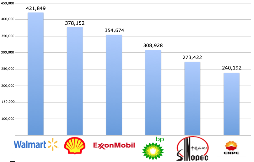 The six largest businesses of the world in 2012 according to their revenue in billions